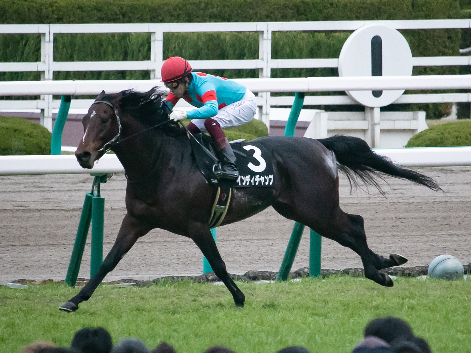 Indy Champ(JPN), Racehorse of Japan.